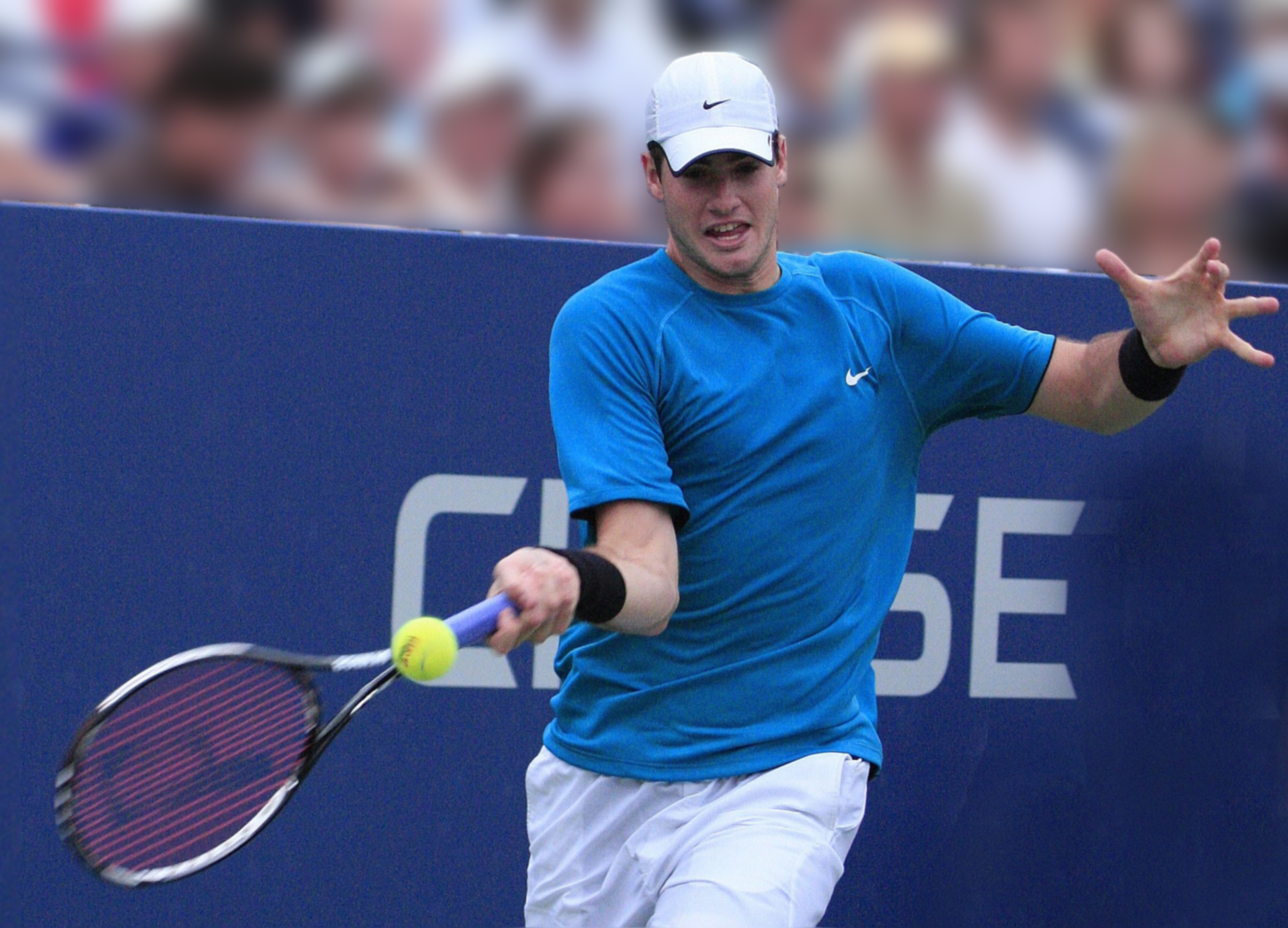 John Isner in 2009 US Open match against Fernando Verdasco